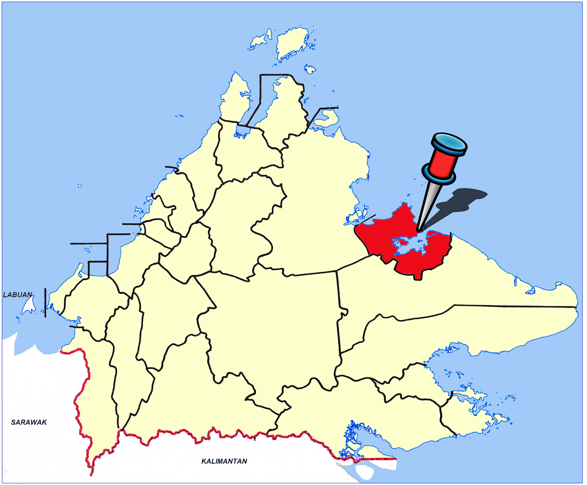 Sabah: Location map of District and Town Sandakan